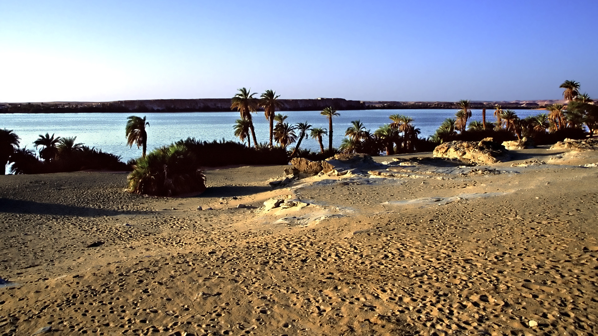 Yoa lake, Chad